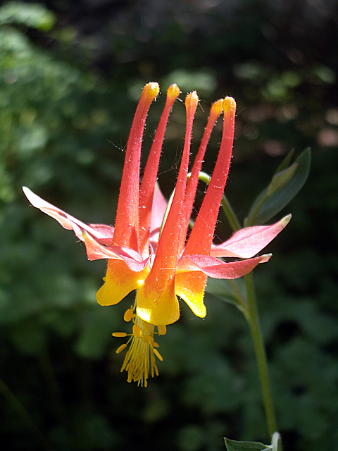 Aquilegia formosa ssp. ? — Sitka columbine. In the Rancho Santa Ana Botanic Garden - Claremont, California.